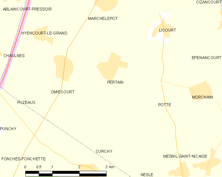 Map of French municipality Pertain